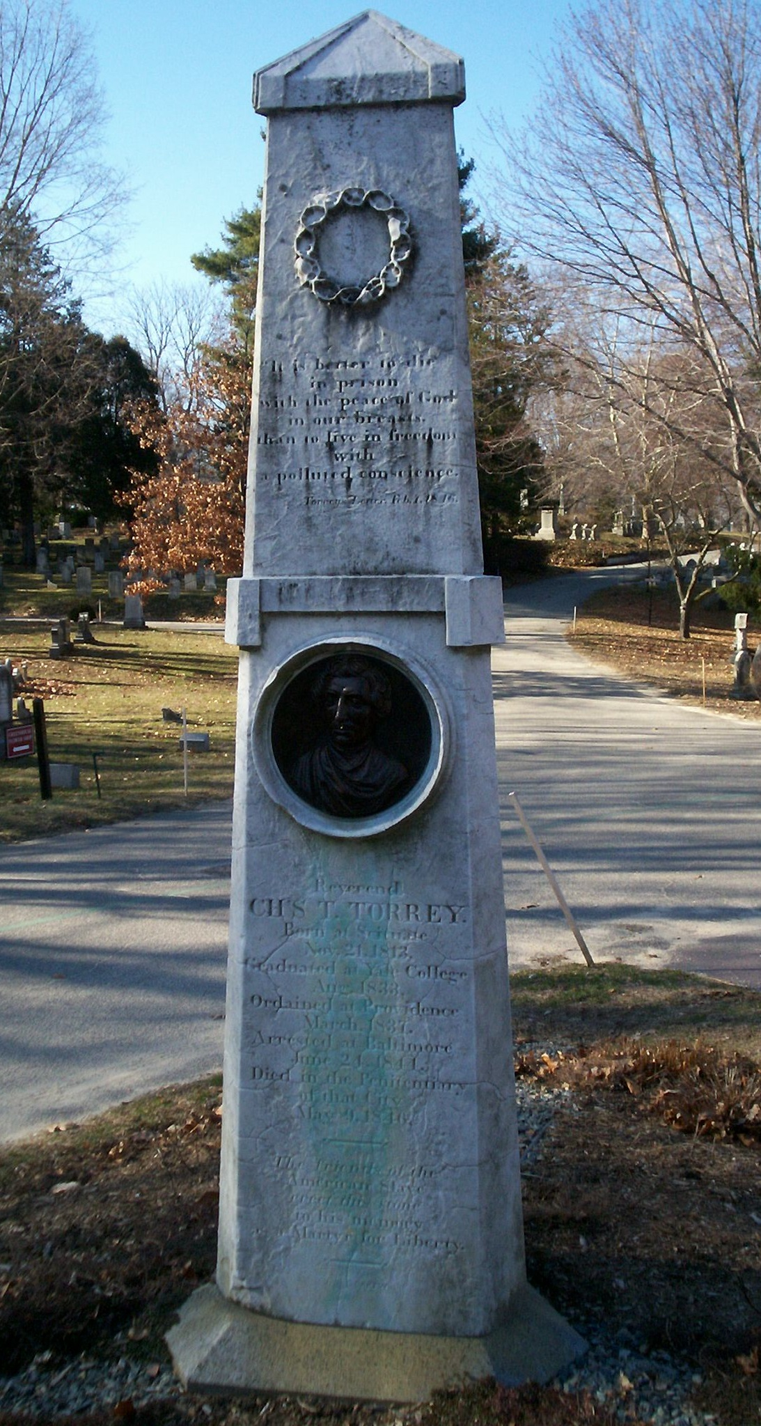 Monument for Charles Turner Torrey at Mount Auburn Cemetery, Cambridge, Massachusetts. March 2008.